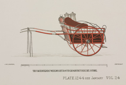 Print. One of a series of designs for various types of horse-drawn transport by J & C Cooper published in the Coachbuilders and Wheelwrights' Art Journal.